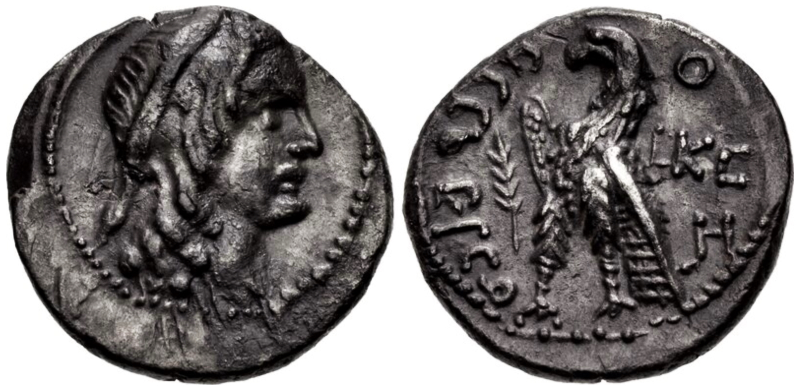 Silver drachm of Malichus I from 34 BC (16.5 mm, 3.46 g)